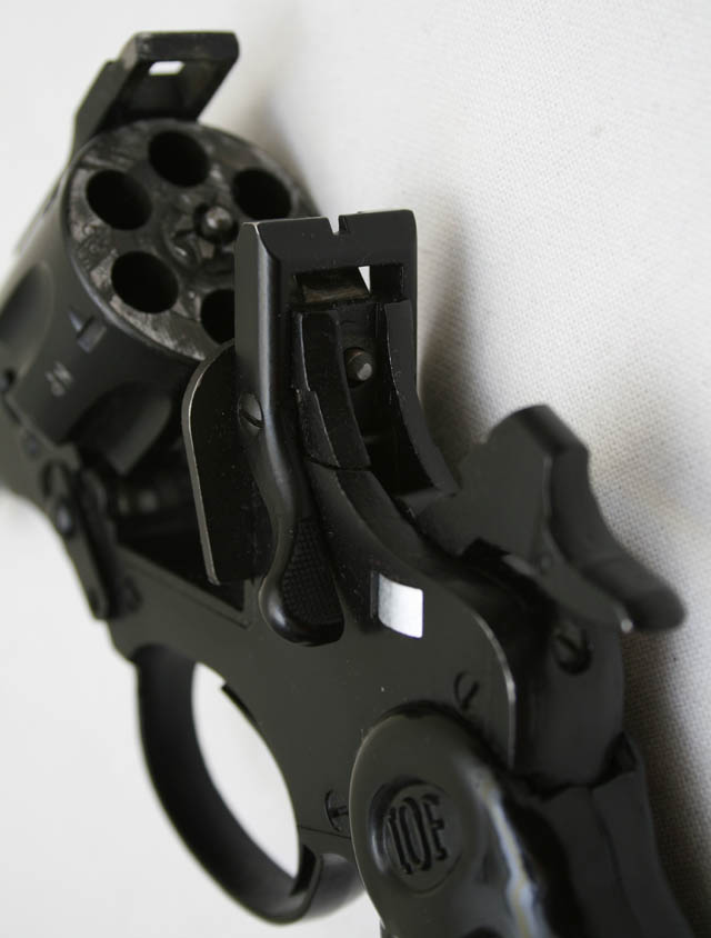 Open IOF 32 Revolver showing cartridge cylinders (6), break-barrel design, Firing Pin transfer bar, pulled back hammer and Safety bar